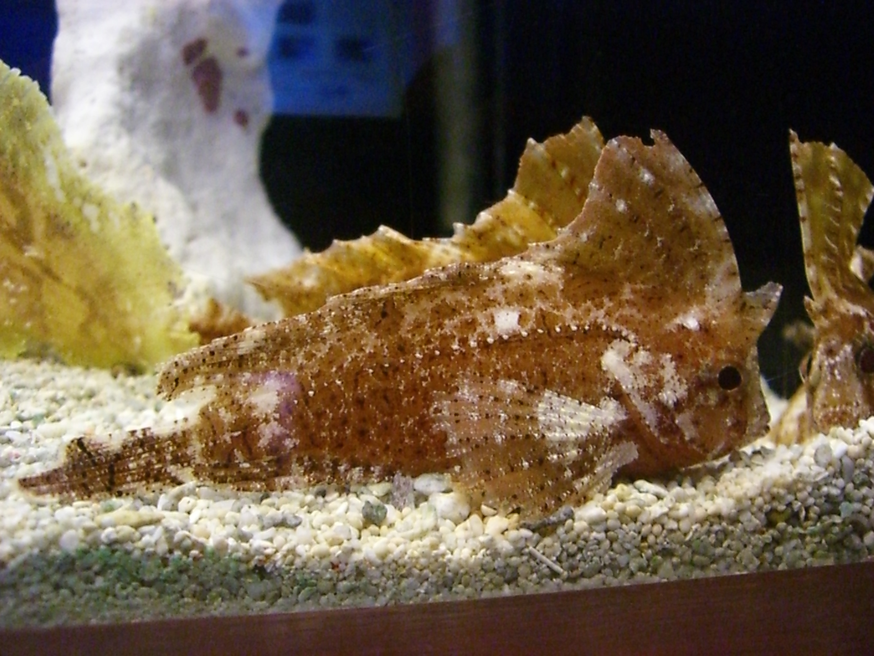 Ablabys taenianotus